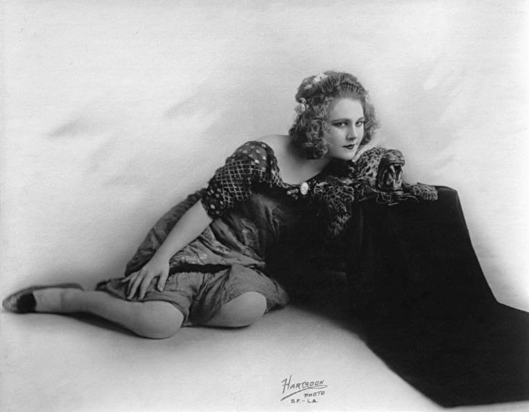 Portrait of Australian actress Louise Lovely (1895–1980) by Hartsook Photo, S.F. - L.A.